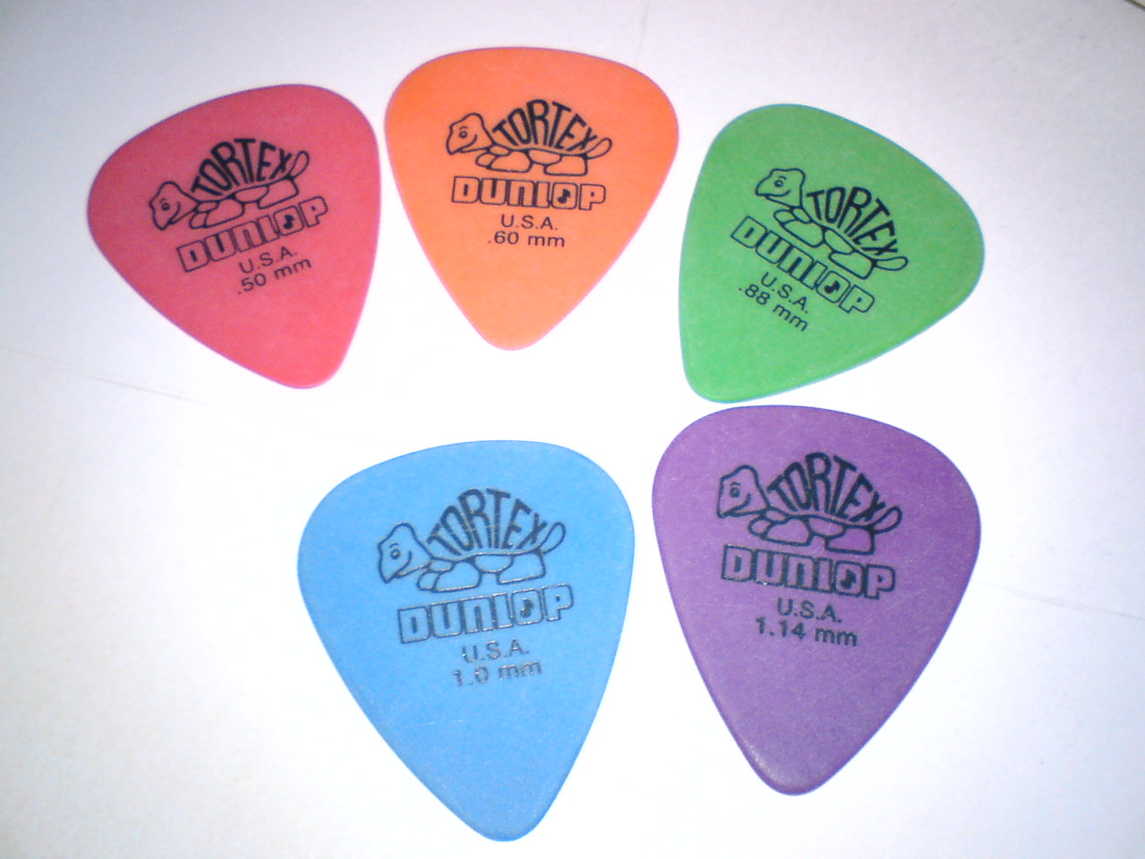 Various Dunlop Tortex picks.